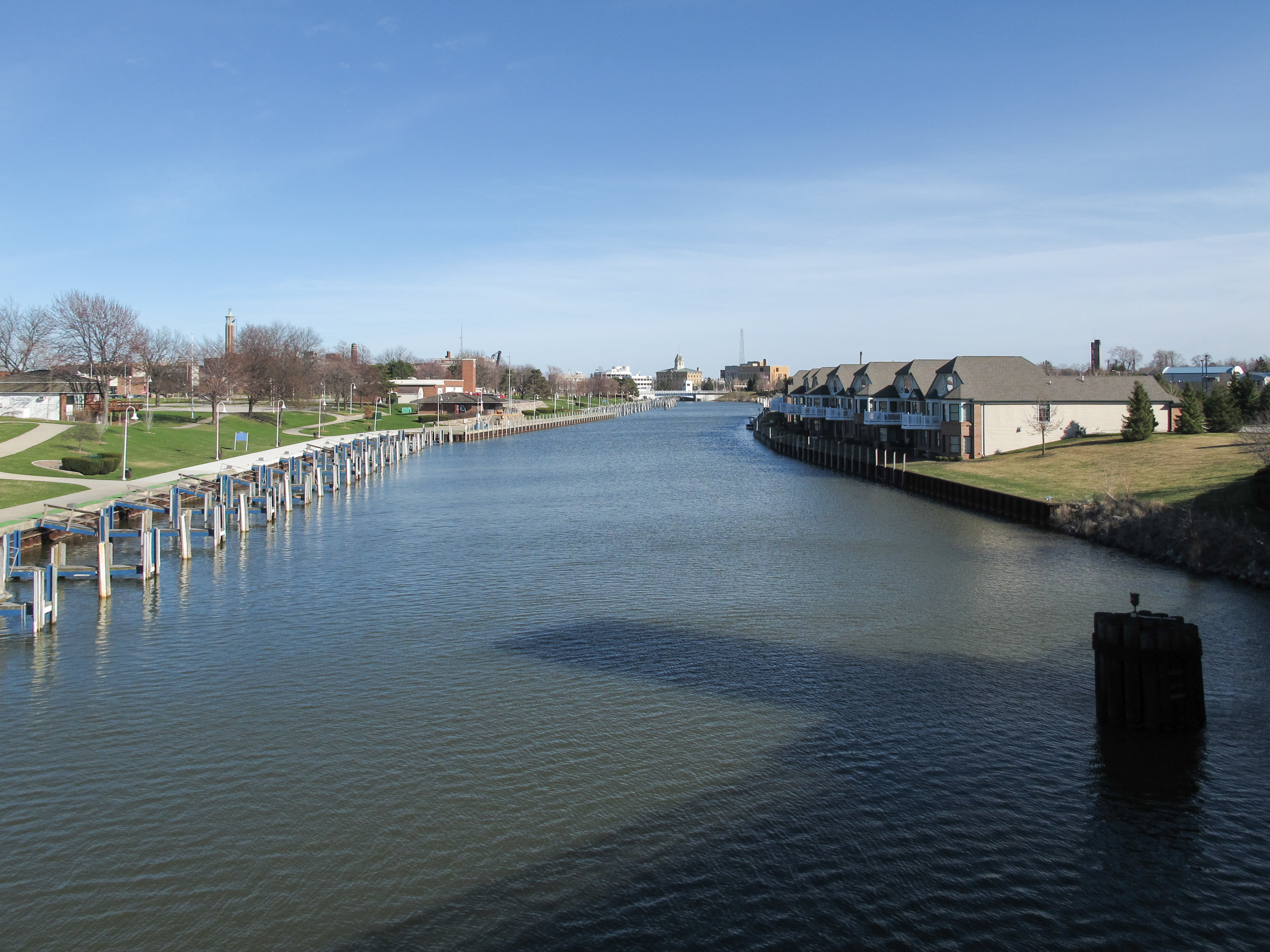 The Black River as viewed downstream from the east side of a bridge on 10th Street in Port Huron, Michigan.